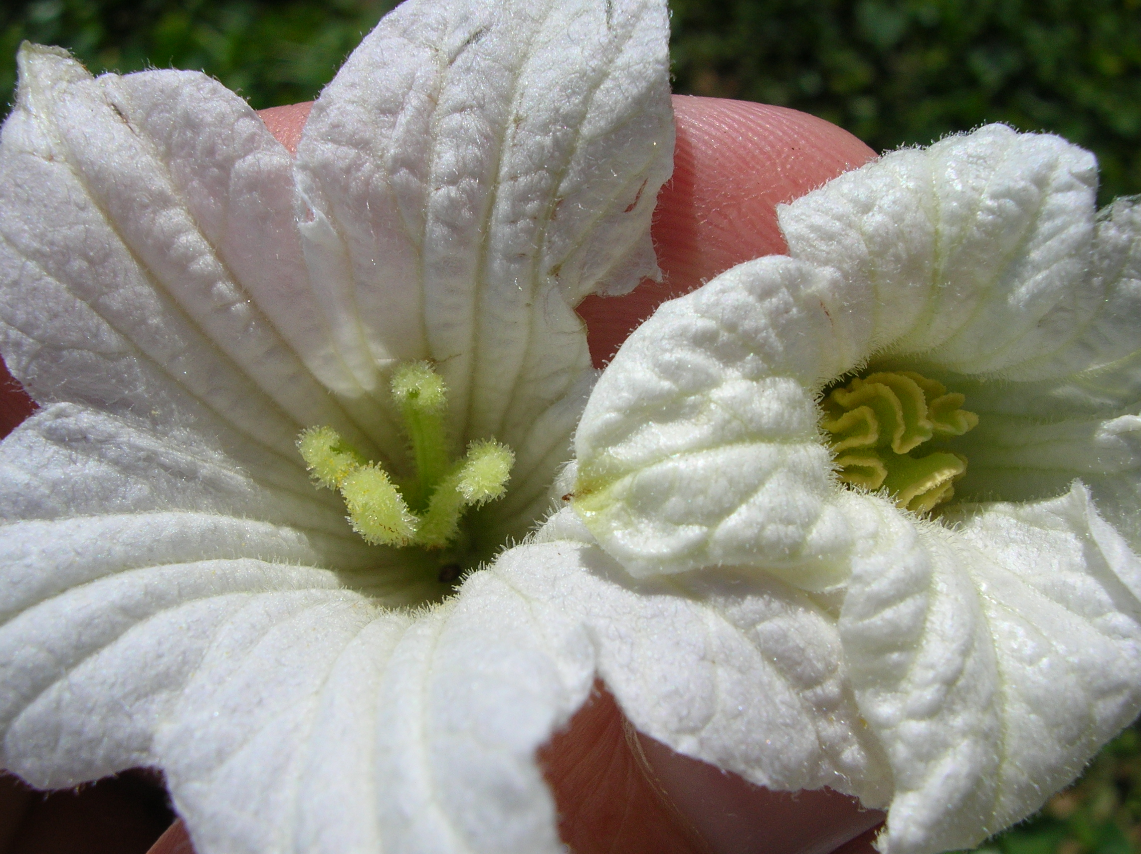 Coccinia grandis (female and male flowers). Location: Oahu, Mokuauia